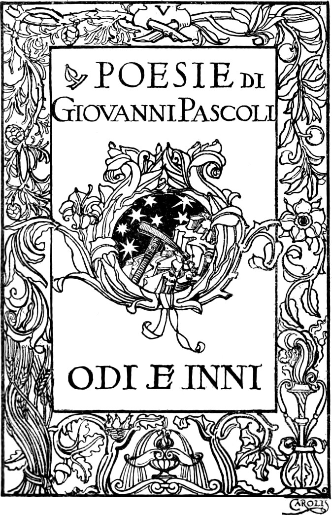 Illustration from book Odi e inni by Giovanni Pascoli